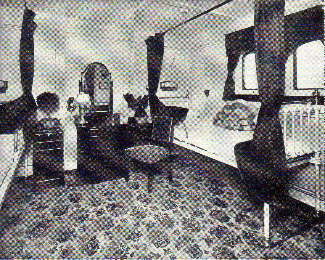 State Room 1st Class of O.S.K. Line "Buenos Aires Maru"(1929).